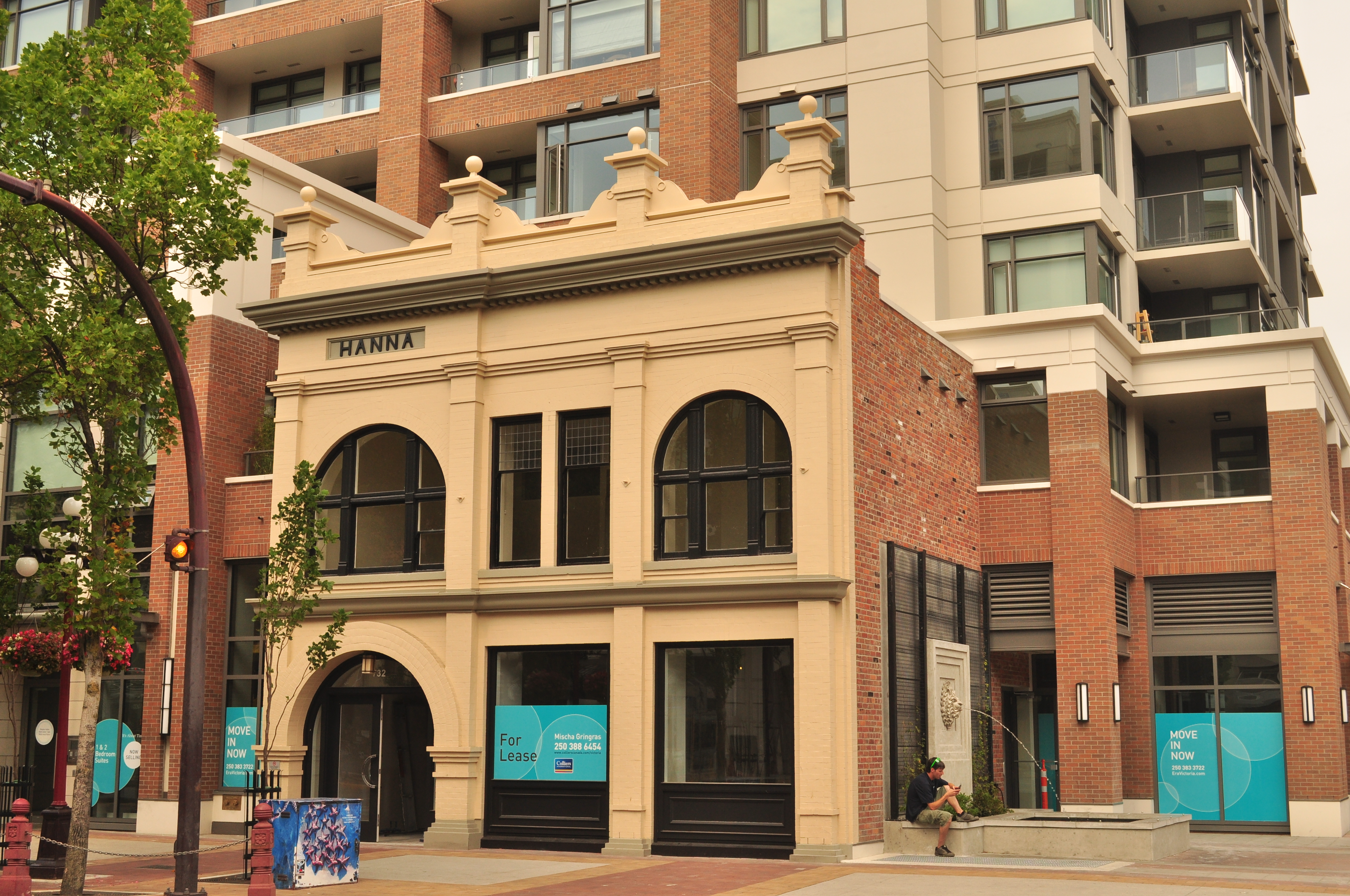 The building that was originally Hanna's Undertaking Parlour is listed in the official historicplaces.ca as being at 738 Yates Street, Victoria, British Columbia, but as of 2015 (and with recent renovation work very much in evidence) it has the street address of 732 Yates Street.